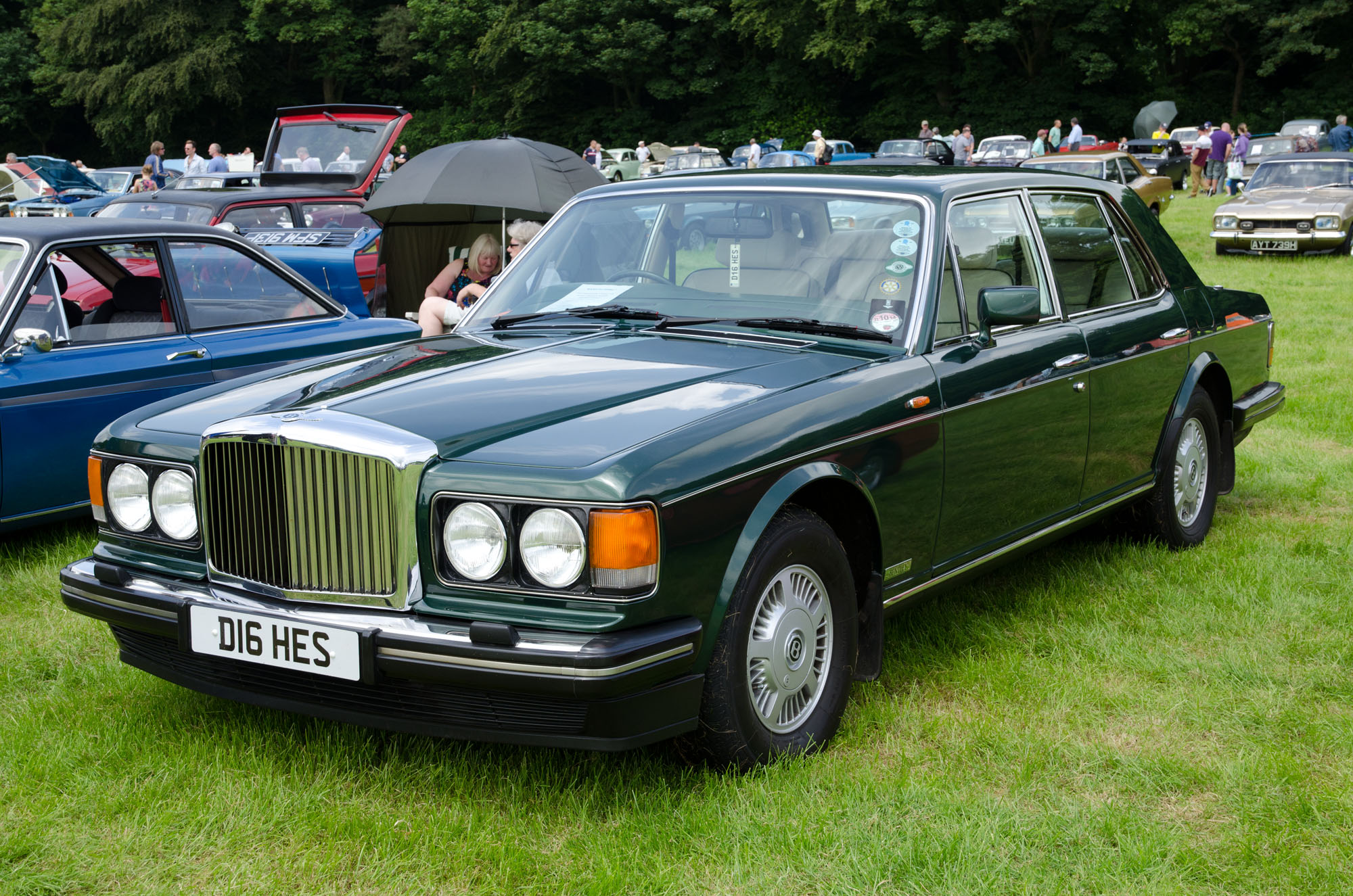 Hoghton Tower Classic Car show 22/06/2014